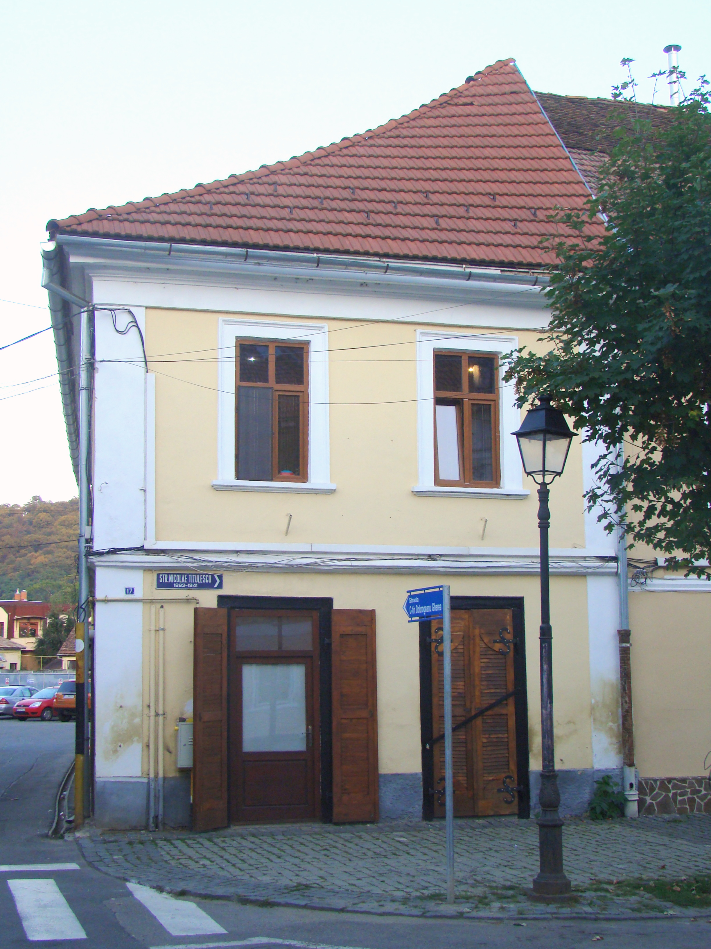 House, historic monument, in Bistrița, Nicolae Titulescu street 17